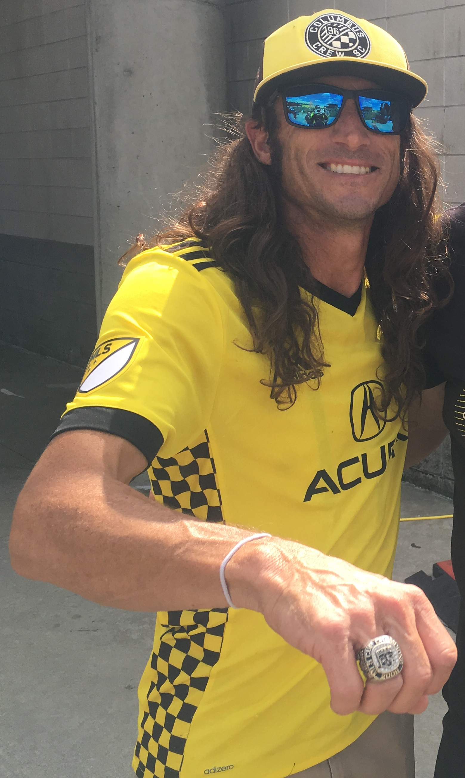 Picture of Frankie Hejduk at a Columbus Crew SC Meet the Team event in 2017.